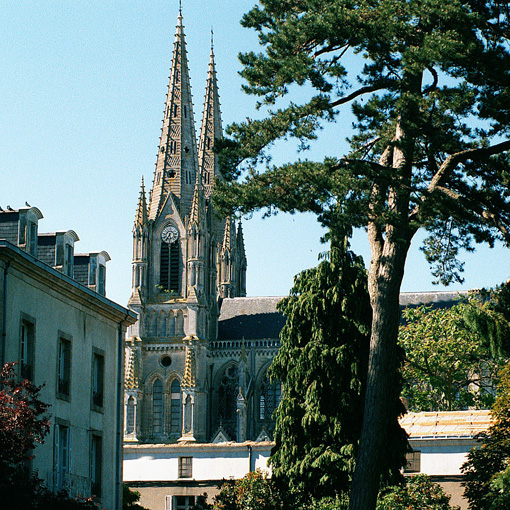 A photo of the Notre-Dame Church in Cholet I made in june 2001 that I've reframed to fit with the communes'infobox.